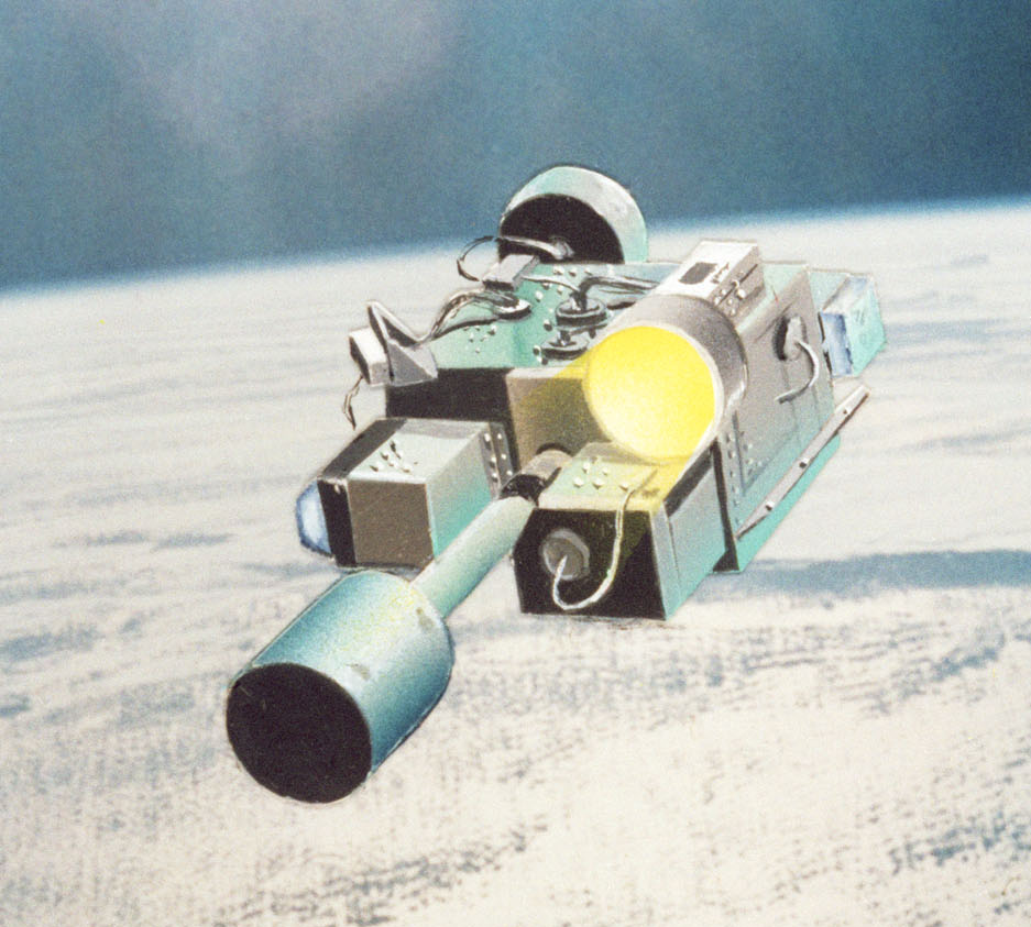 S65-28653 (August 1965) --- Rendezvous Evaluation Pod (REP) in orbit is approached by Gemini spacecraft as seen in this artist's concept. The REP was to be used by the crew of the Gemini-5 spacecraft to practice rendezvous techniques. The REP is superimposed over a Gemini-4 Earth-sky picture of cloud formations over an ocean